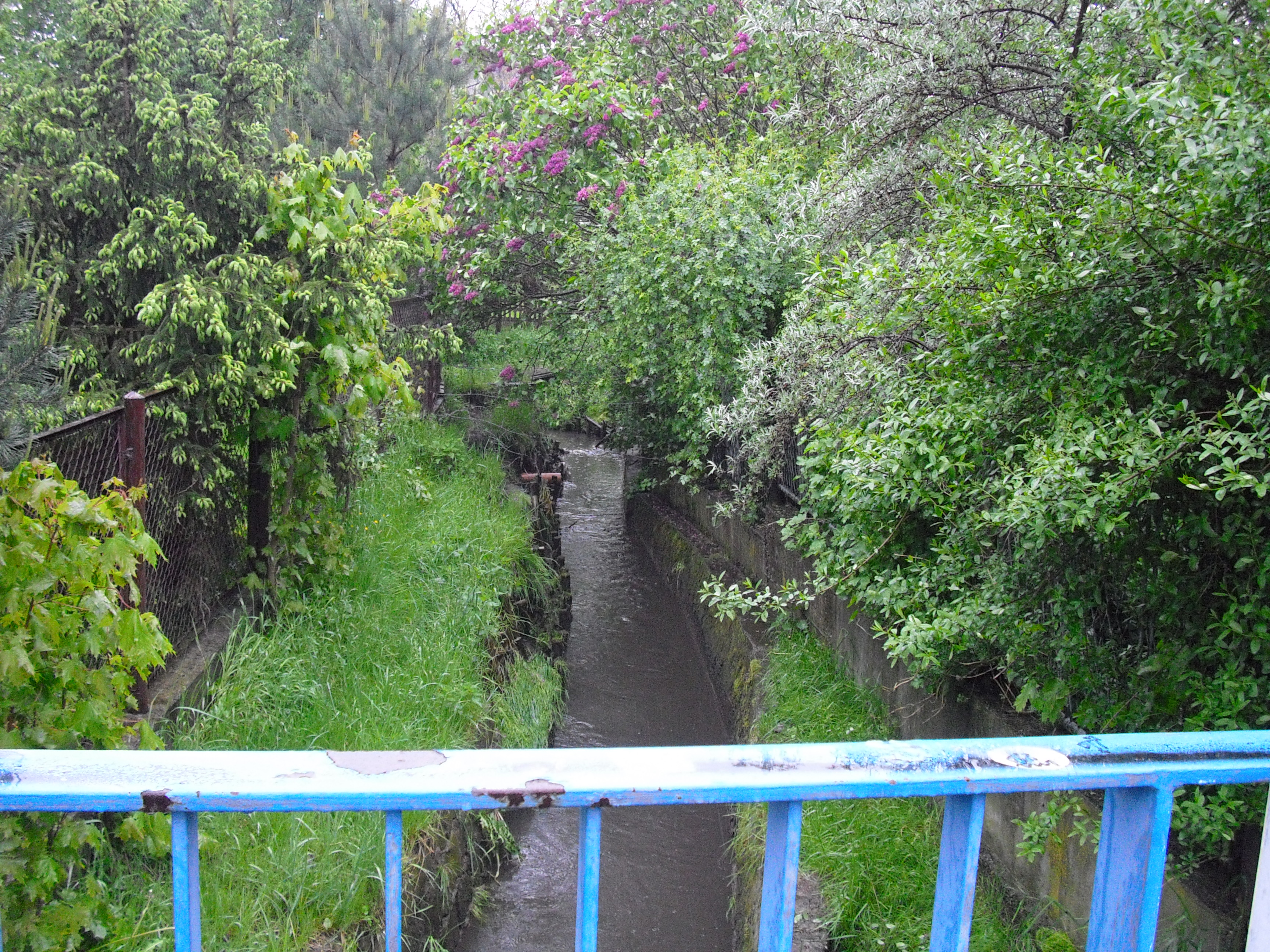 Mleczna (Gostynia tributary), view from the bridge on Kornasa st., Katowice Piotrowice